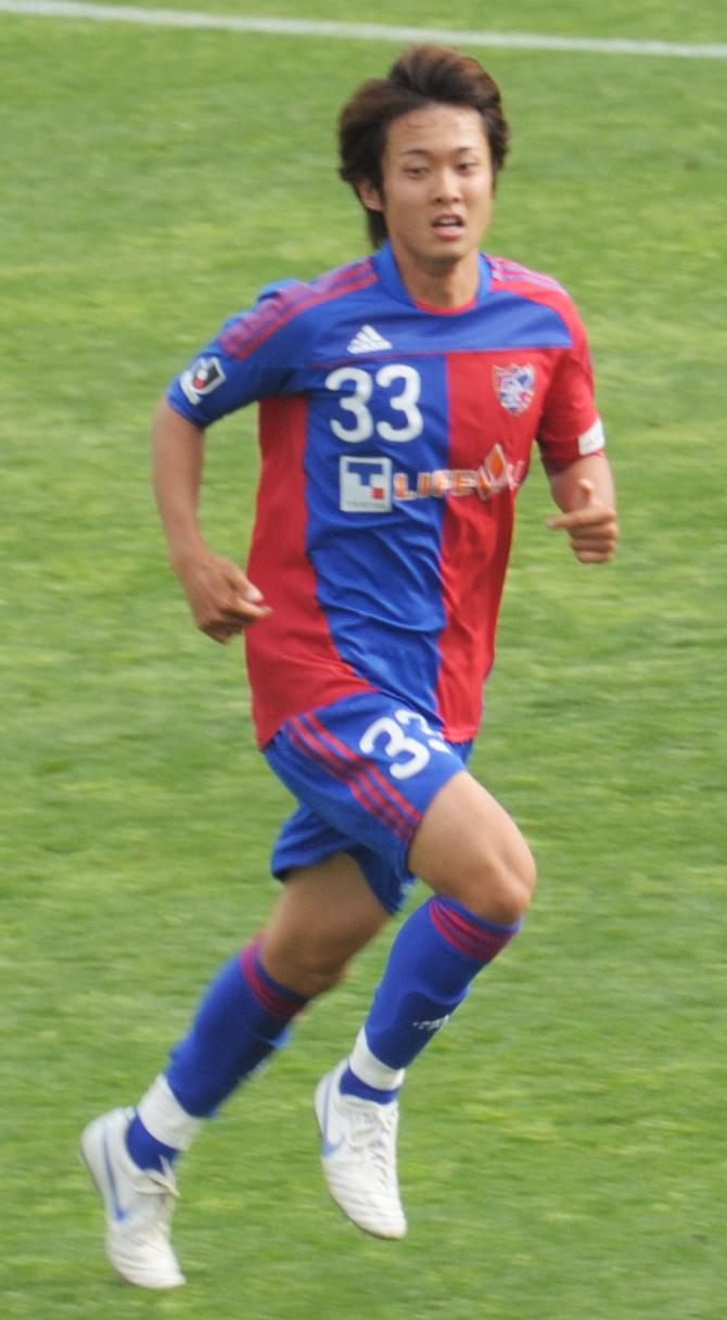 Kenta Mukuhara - running cropped from DSC_4402